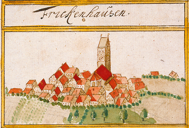 View of Frickenhausen from the forest register books created by Andreas Kieser